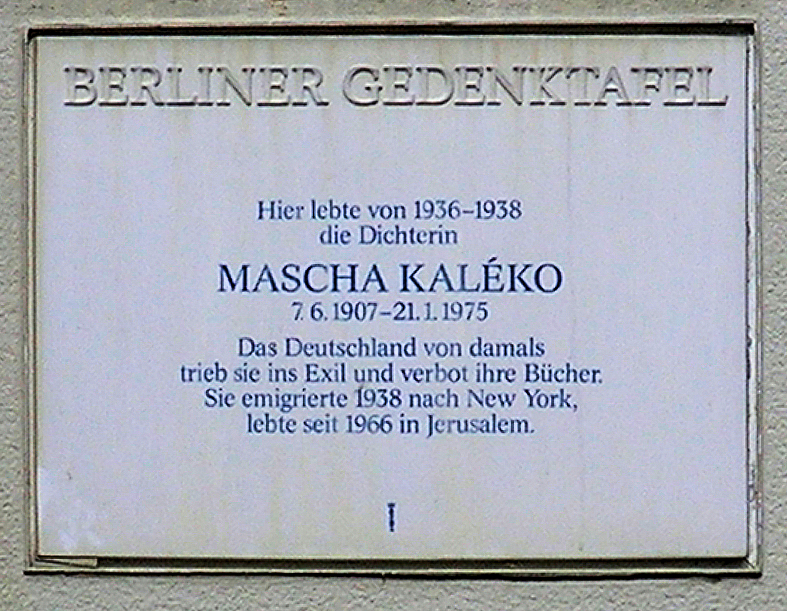 Berlin memorial plaque, Mascha Kaleko, Bleibtreustraße 10-11, Berlin-Charlottenburg, Germany